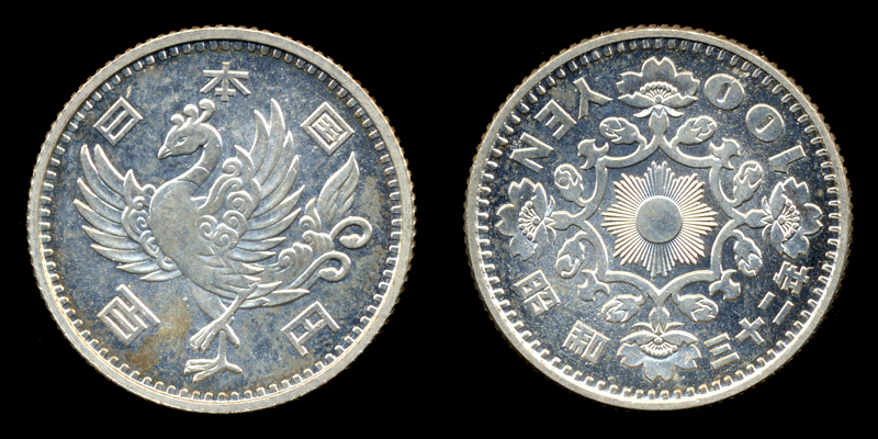 100yen-S32(current coin)